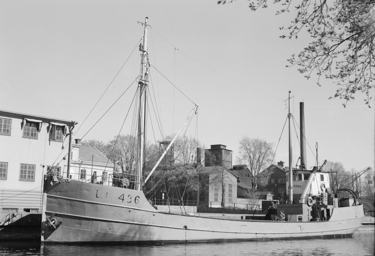 Coastal motor vessel TJÖRNÖ (IMO 5140958) built at Schulte & Bruns, Abteilung Werft- & Dockbetrieb, Emden/Germany (yard № 11, launched: 08-01-1922, delivered: 23-05-1922) as fishing vessel BERLIN (AE4) for Emder Heringsfischerei, Emden, 1940-1945 used by Kriegsmarine (German Navy) as supply vessel, 12-09-1945 returned to Emder Heringsfischerei, 19-02-1954 sold to S. Thuvik, Skärhamn/Sweden, renamed TJÖRNÖ and converted to general cargo ship, 11-03-1960 sold to N. Stensholm, Edshultshall/Sweden, and renamed HALLÖ, 12-1963 sold to E. Olausson PR, Skärhamn/Sweden, and renamed NORRFJORD, beached near Kristianopel/Sweden 19-01-1969, BU Göteborg/Sweden 1969; photo by J. Robert Boman (1926 - 2002), copyright owned by Sjöhistoriska museet.